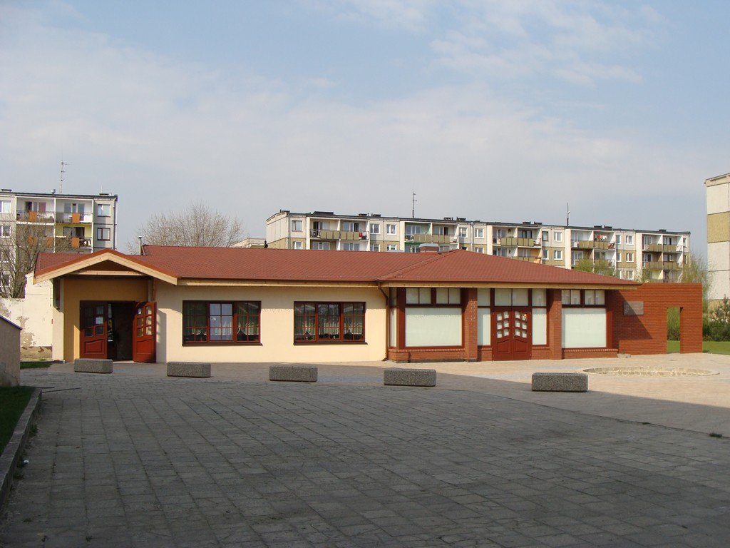 Śrem, Church of the Holy Heart of Jesus, the auditorium of name of John Paul II and cafe 'Emaus'.